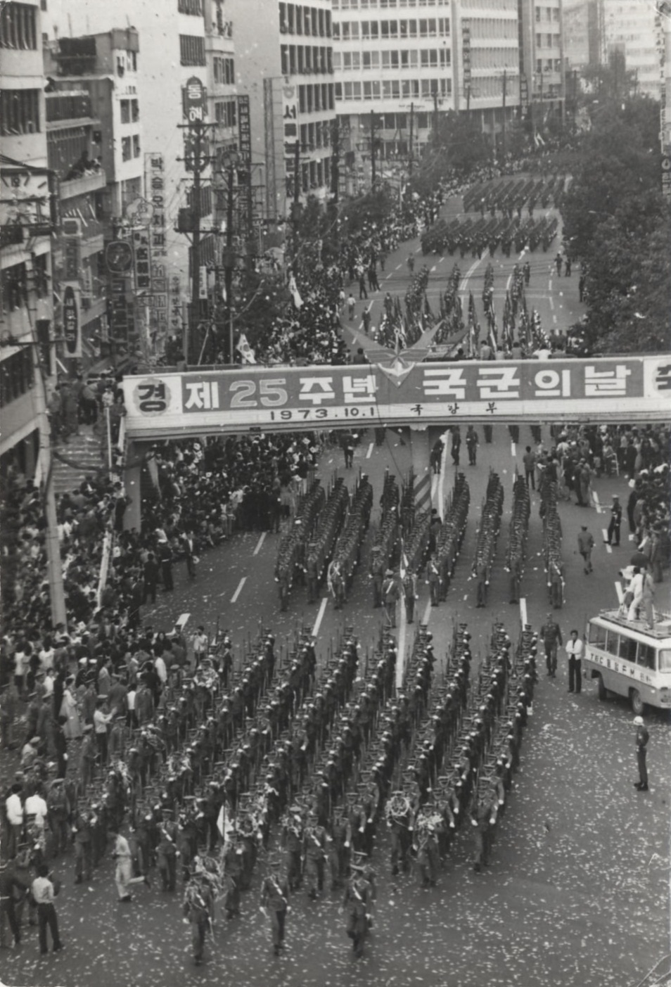 South Korean Army Parade at Armed Forces day in 1973.